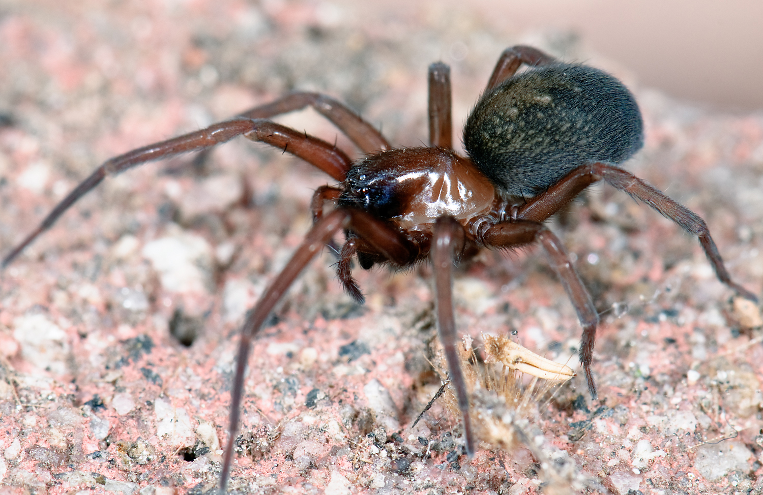 Metaltella simoni. This spider species is native to southern South America, but is now a common invasive, synanthropic species in southern CA, including San Diego. Spiders are typically found under debris, like this brick in my backyard. An article about the southern CA invasion can be found here